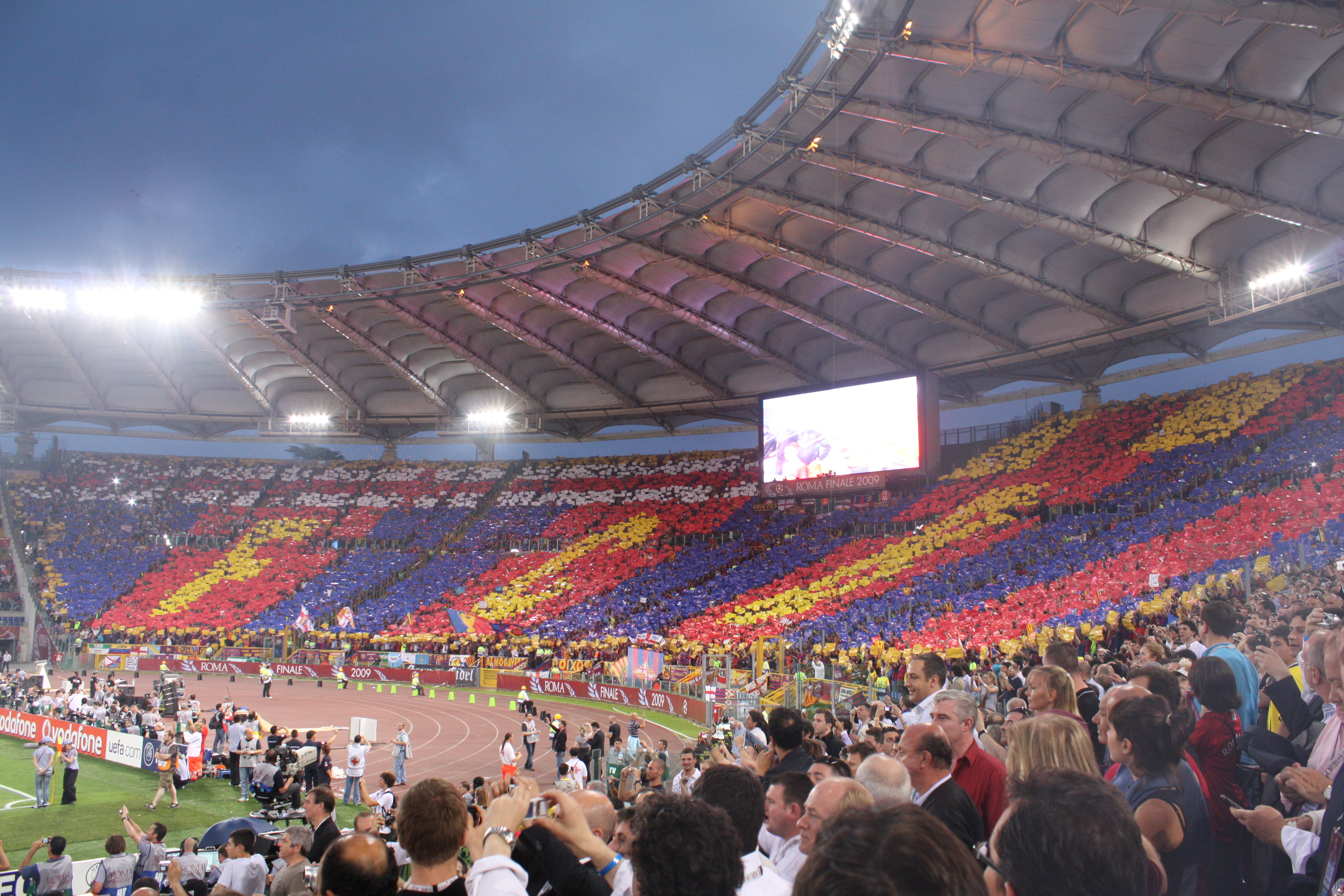 FC Barcelona fans form a mosaic reading "FCB" prior to the 2009 UEFA Champions League Final against Manchester United FC.